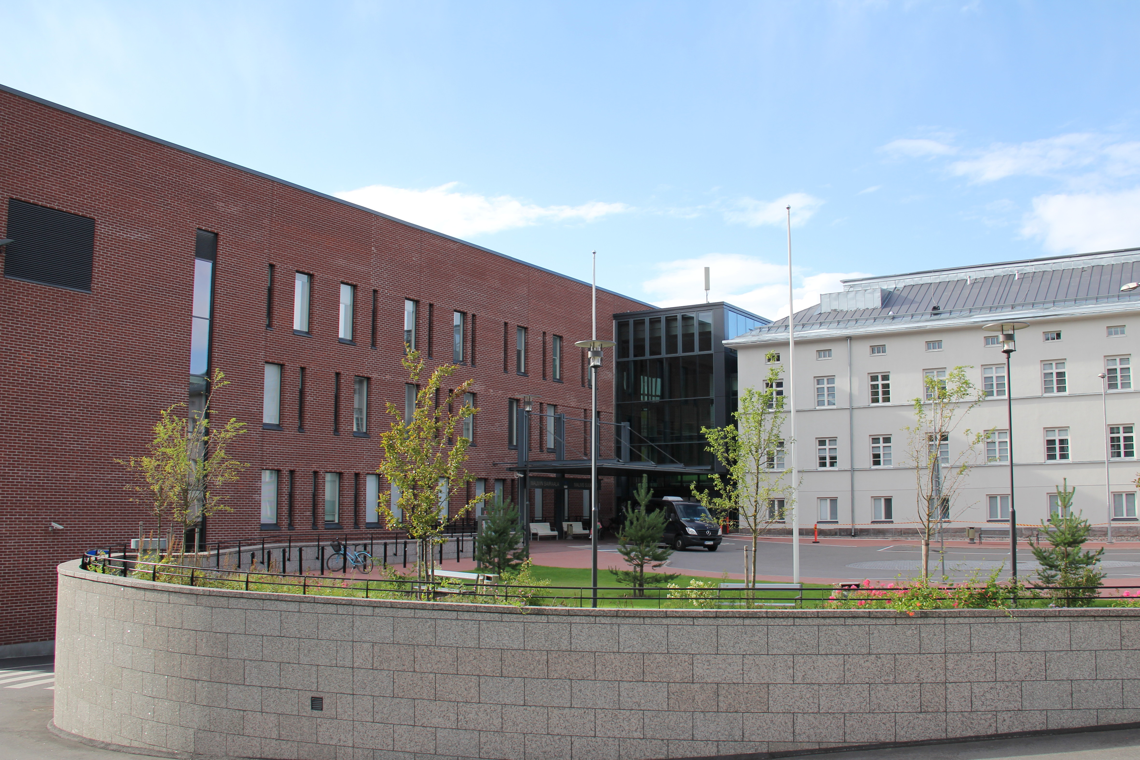 Malmi hospital, Helsinki, Finland. – Main entrance. – New building designed by architect Olli Pekka Jokela and AW2 Architects and completed in 2014.